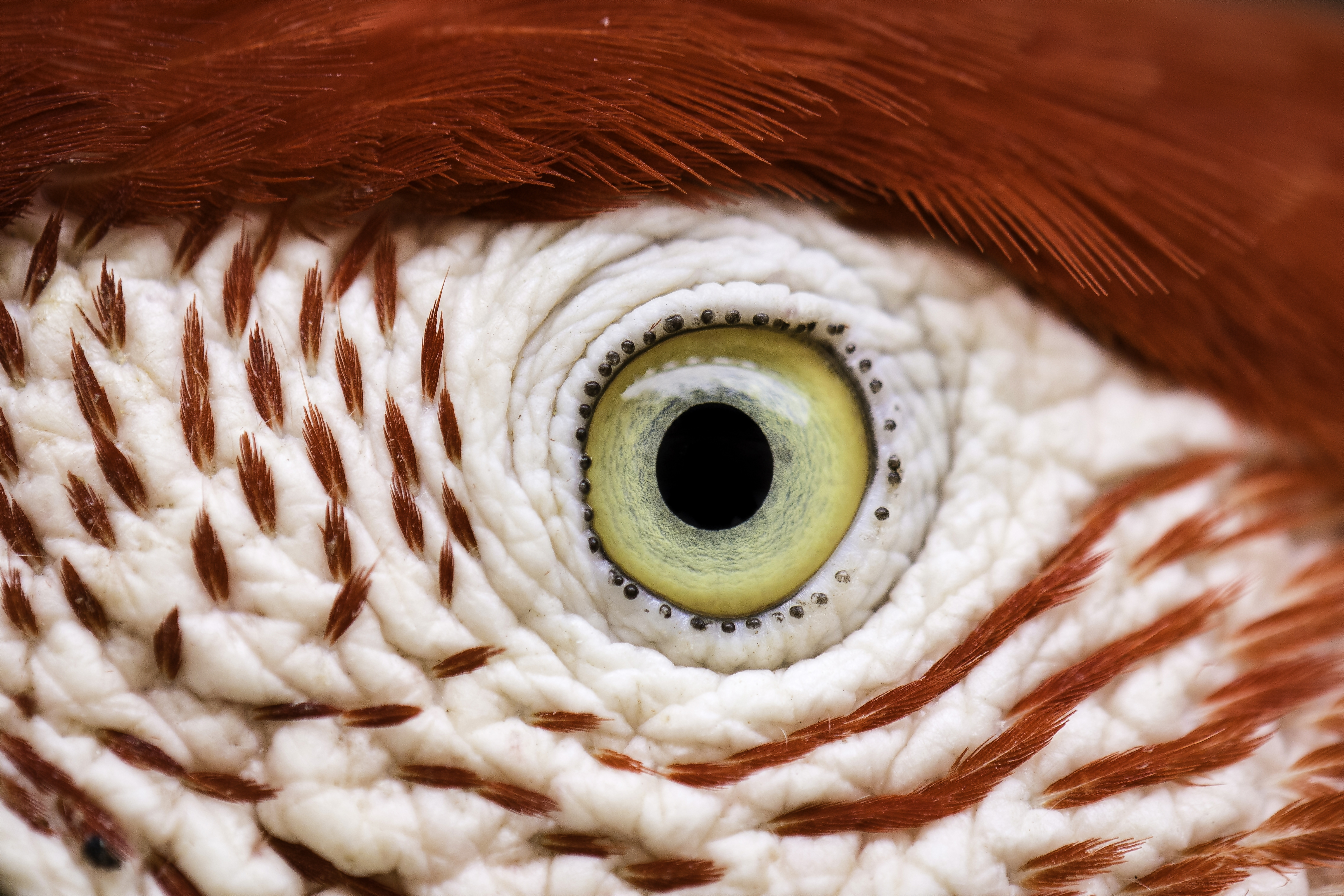 A macro shot of a red-and-green macaw's (Ara chloropterus) eye, Serra da Capivara National Park, Piauí state, Brazil.